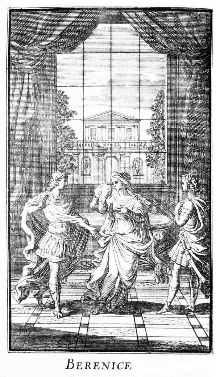 Frontispiece depicting Act V, scene 7, of Jean Racine's 1670 play Bérénice, in Oeuvres de Racine (2 volumes), vol. 2, published by Claude Barbin in Paris in 1676 (etching; 8 cm x 12 cm; printed on paper; Trinity College, Dublin; Aspin collection, cat. no. OLS B-6-764)